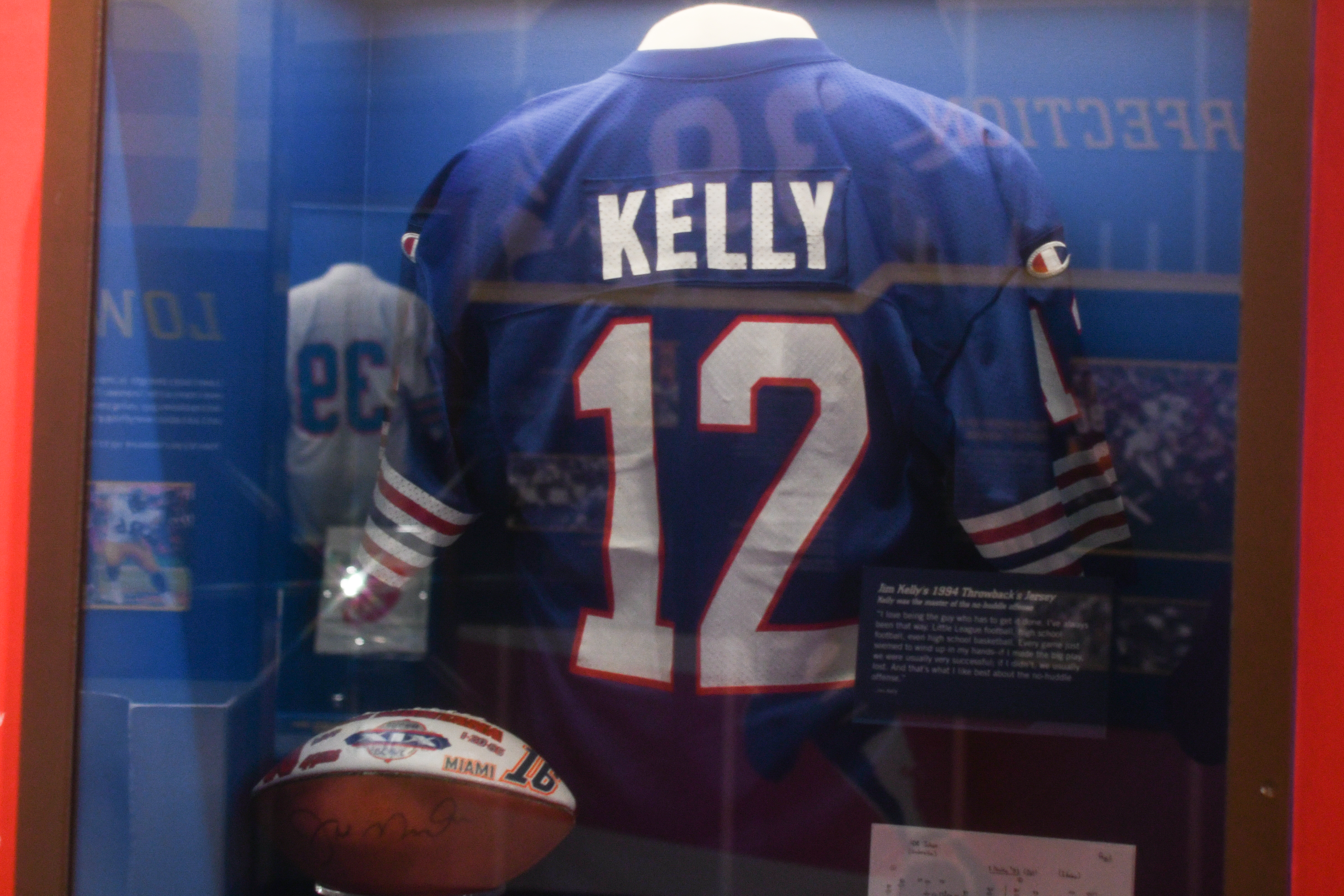 Buffalo Bills quarterback Jim Kelly 1994 NFL season jersey displayed at the Pro Football Hall of Fame